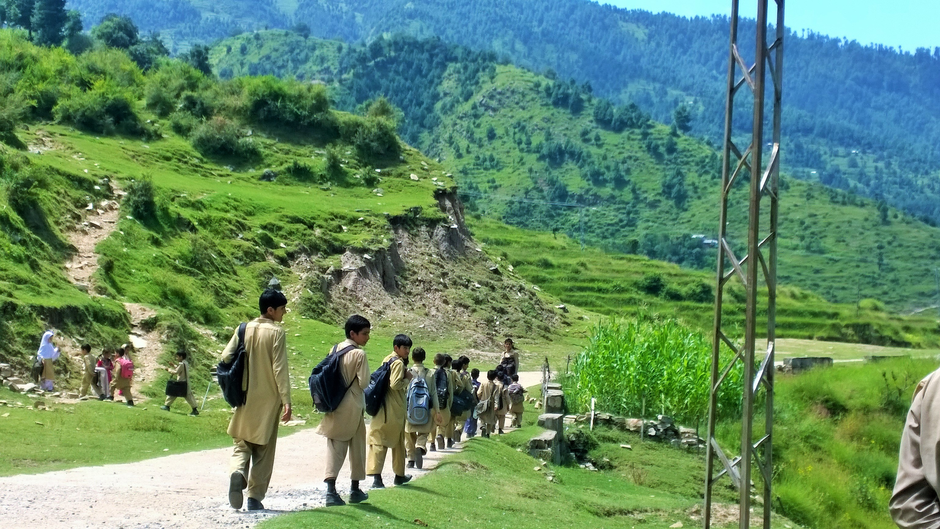 a town Allai in District Battagram KPK